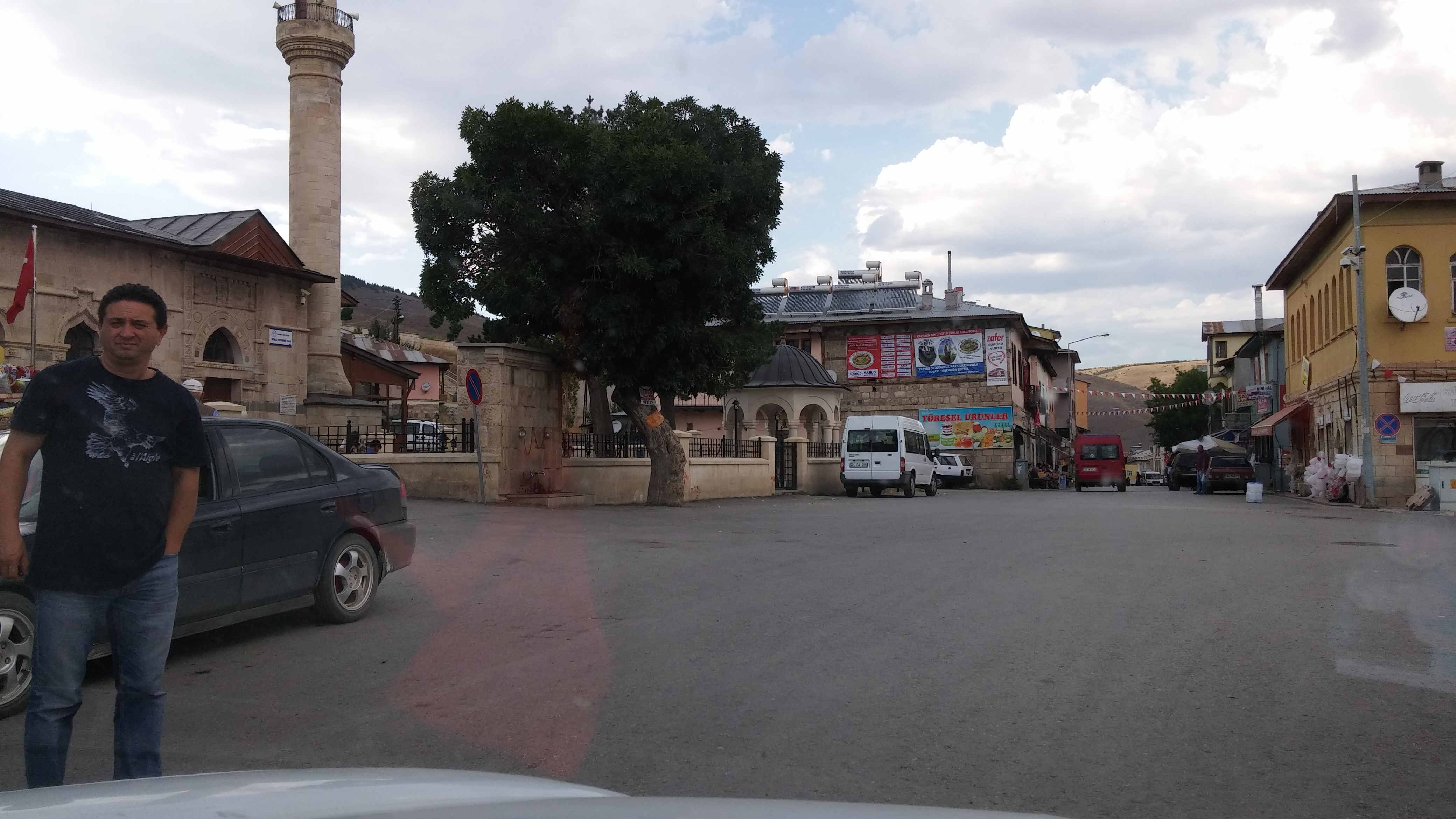 Merkez